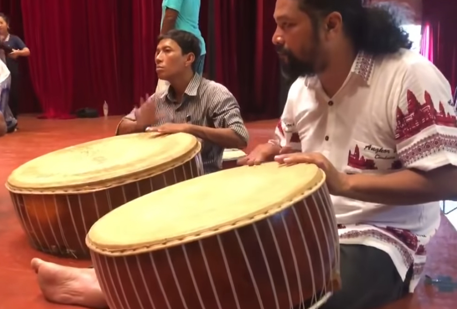 Two skor yike or yike drums being used at a Khmer New Year Opera.